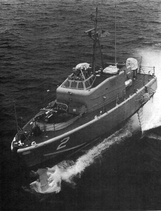 USS Tucumcari (PGH-2) hydrofoil patrol vessel, used by the U.S. Navy between 1968 and 1973. This vessel was a Boeing JetFoil predecessor.